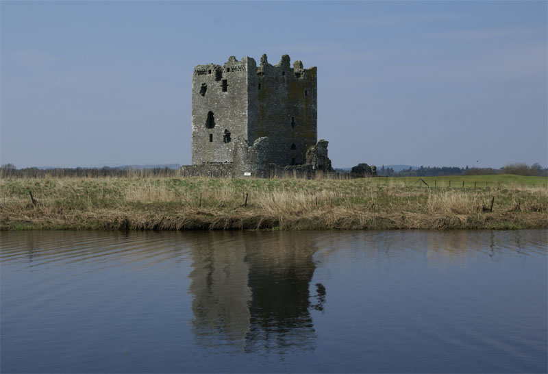 Threave Castle (Dumfries and Galloway, Scotland) - view from River Dee